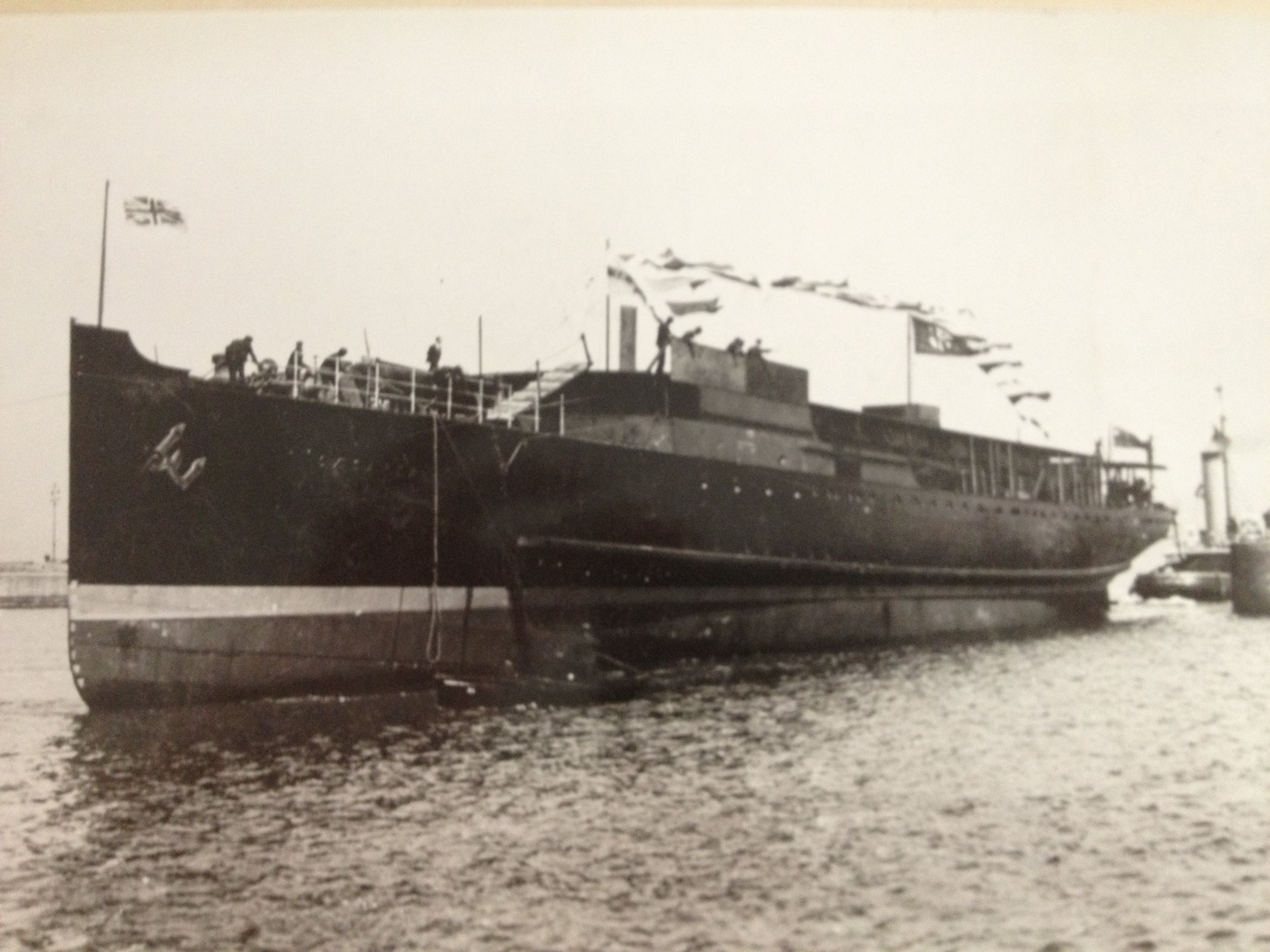 TSS Caesarea launched at Bikenhead.